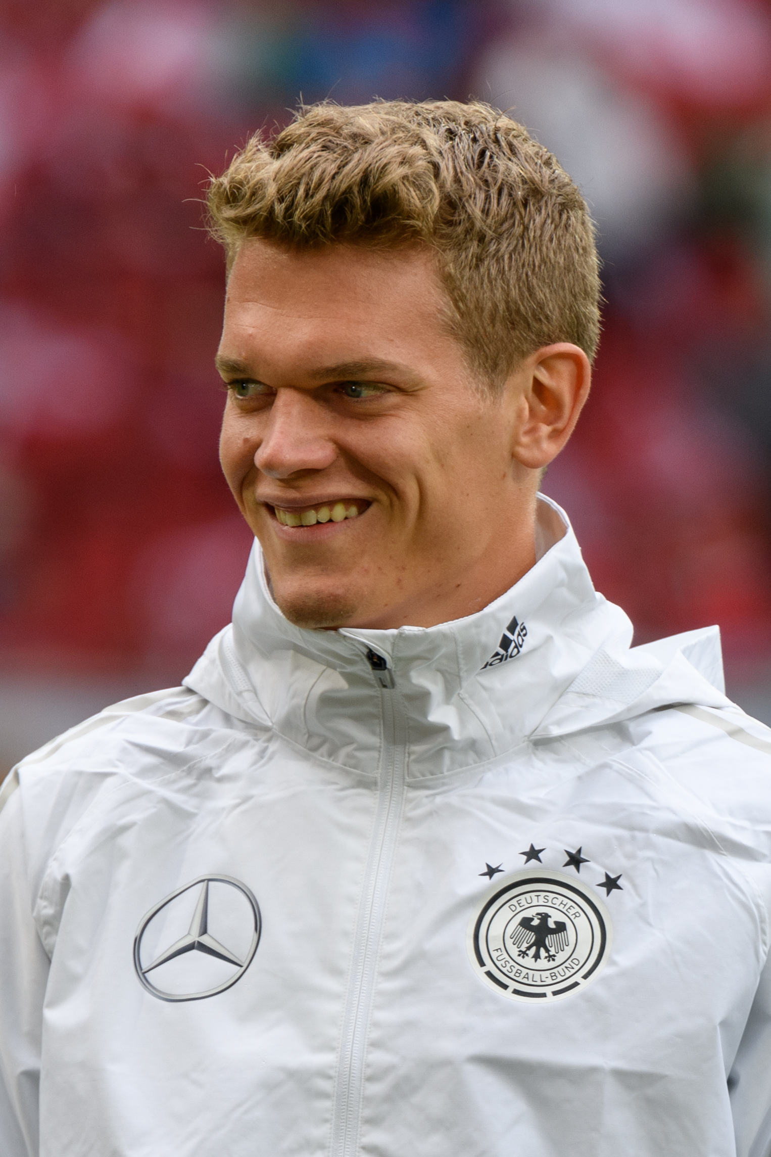 FIFA Friendly Match Austria vs. Germay 2018/06/02 in Klagenfurt/Woerthersee. Picture shows Matthias Ginter (GER).